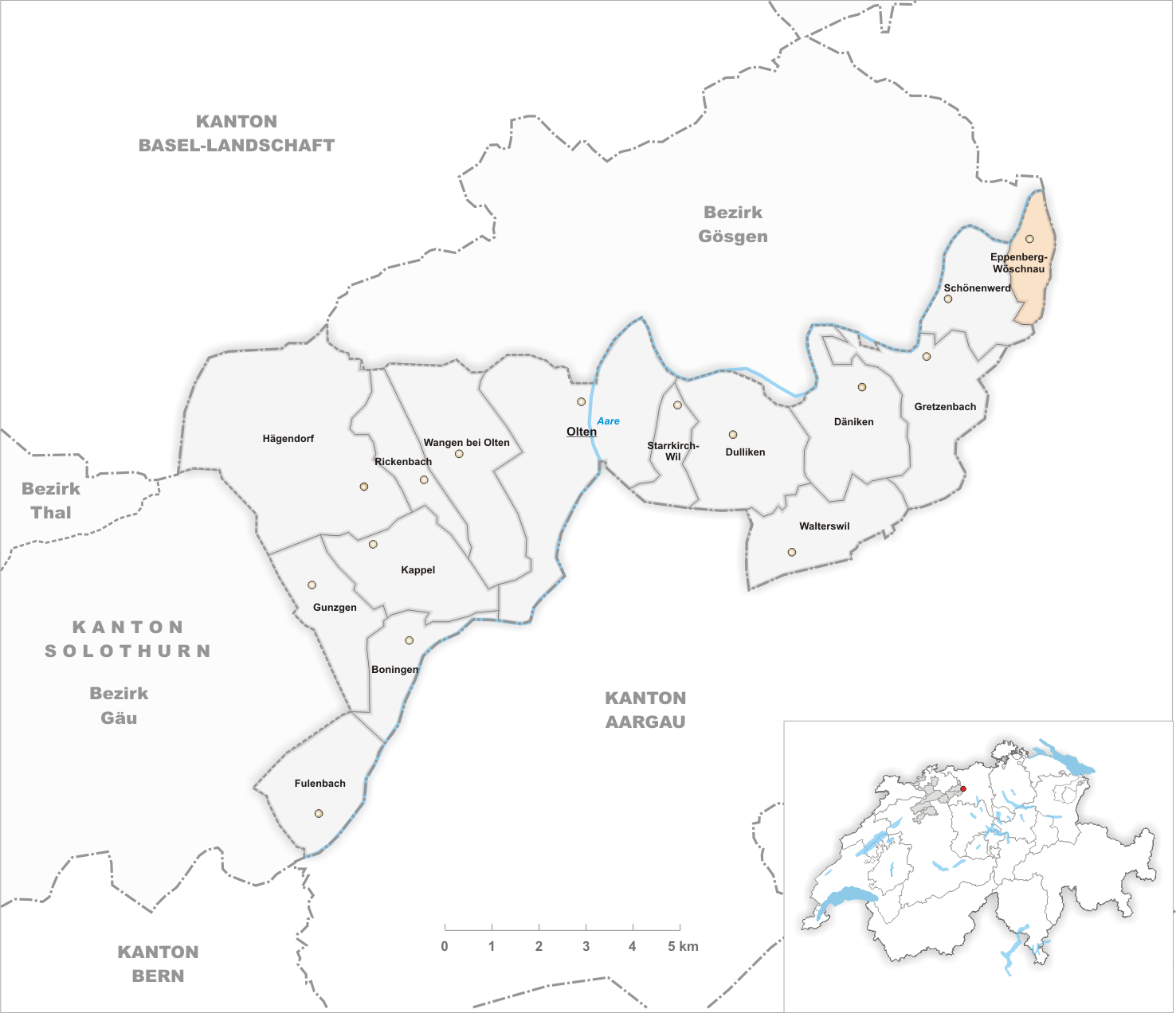 Municipality Eppenberg-Wöschnau